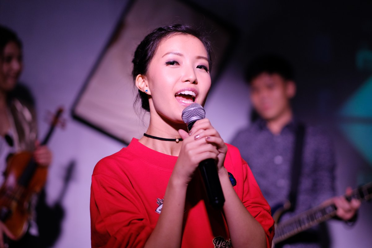 I took this photo during Annette's EP release at canvas club, i have also created an OTRS ticket for the photo